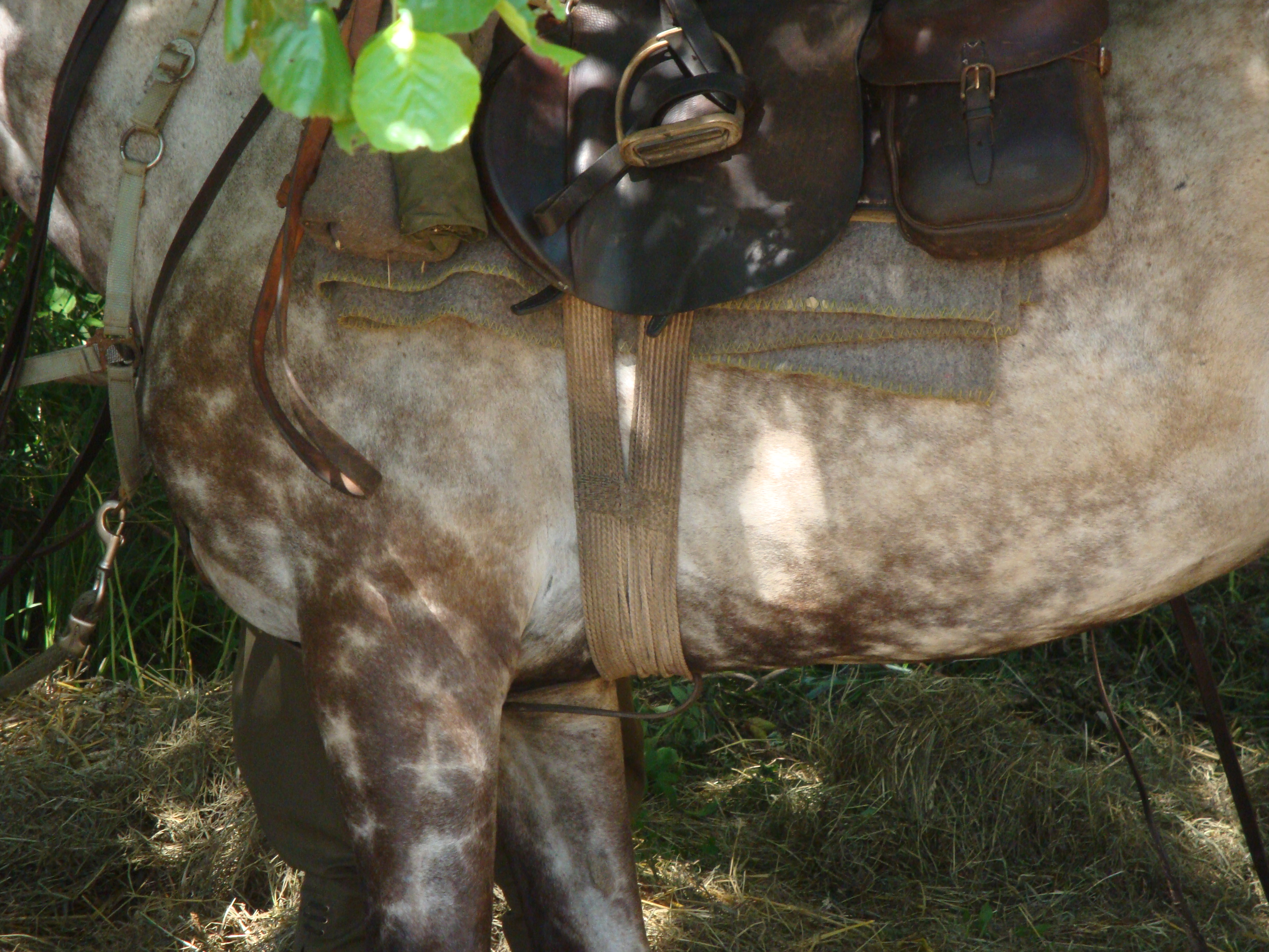 Girth of uhlan saddle